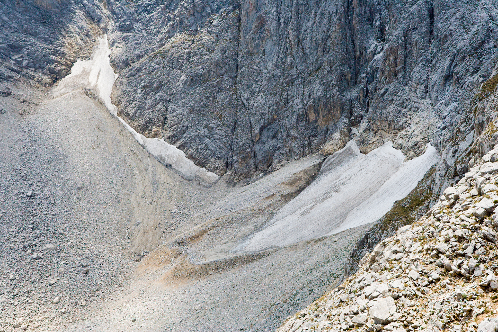 A glacier in the Golemia Kazan cirque, Pirin mountain, Bulgaria